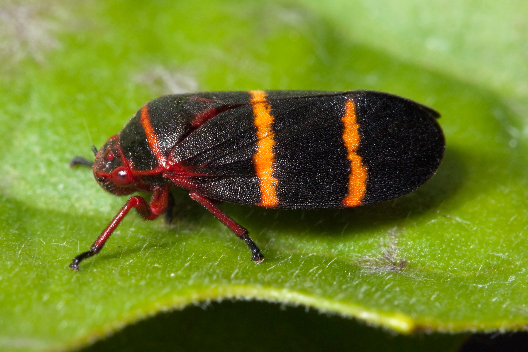 Two-lined Spittlebug (Prosapia bicincta) found at Shelby Park in Nashville, Tennessee